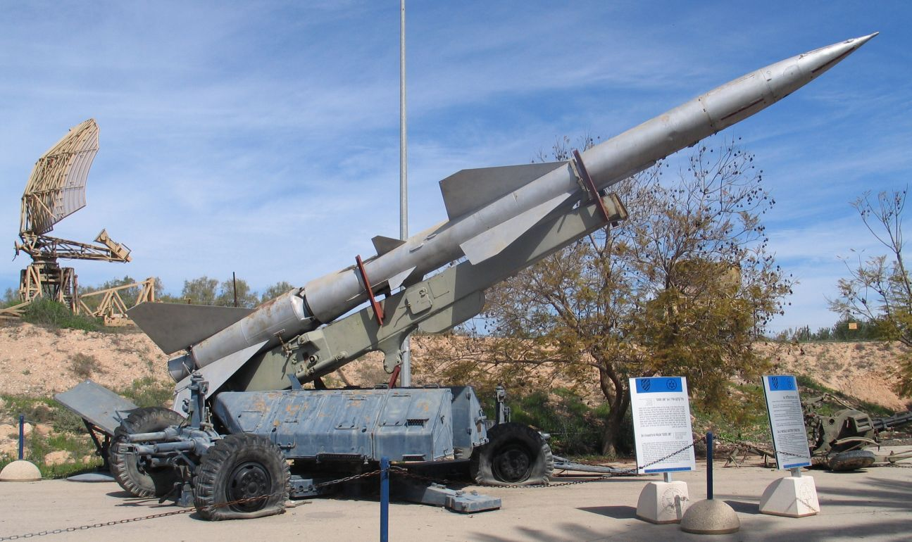 Description: SA-2 Guideline missile launcher at Muzeyon Heyl ha-Avir, Hatzerim airbase, Israel. 2006. Source: Photo by me, User:Bukvoed.